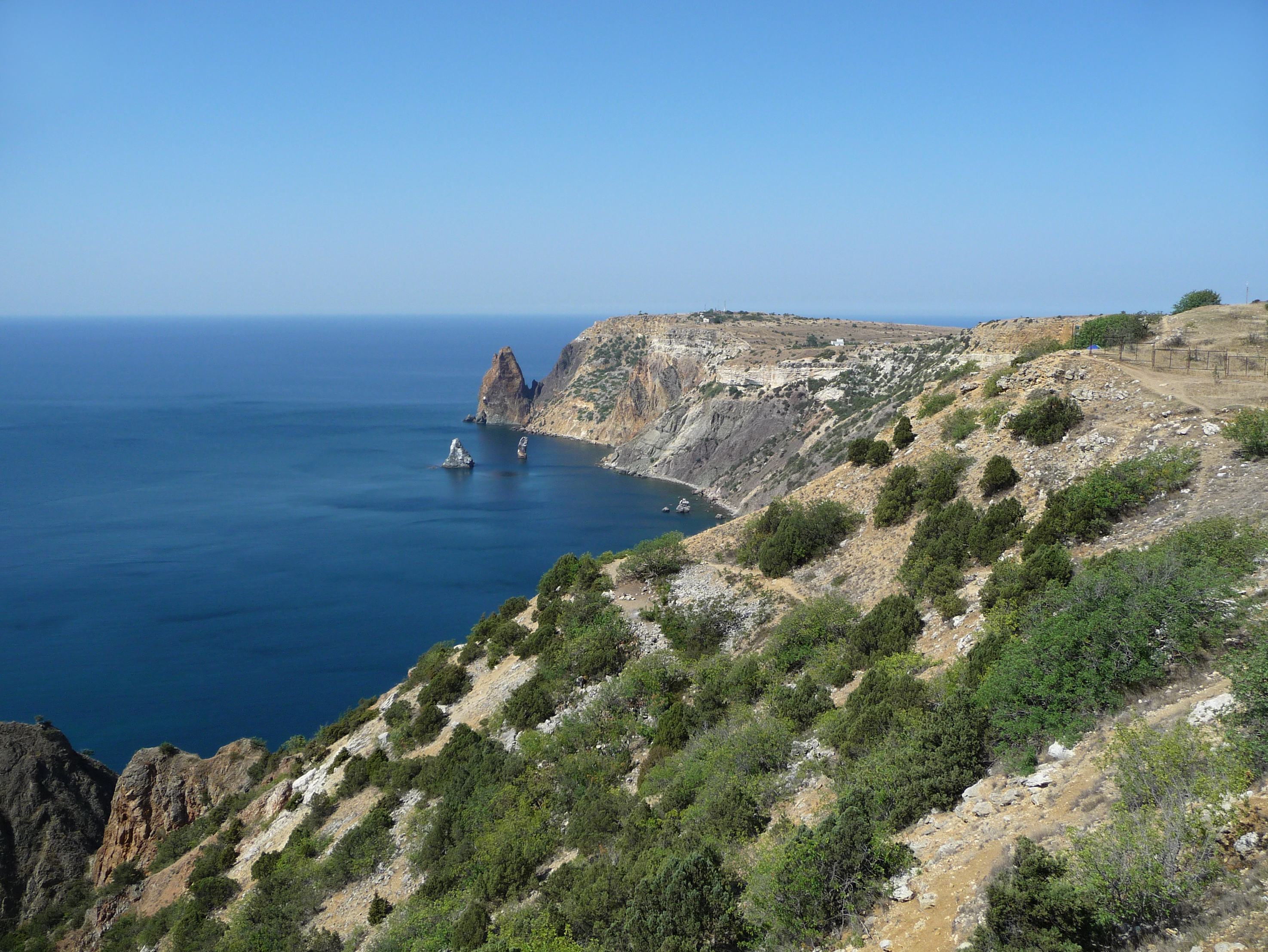 The Black sea, Fiolent rocks formation near Sevastopol.